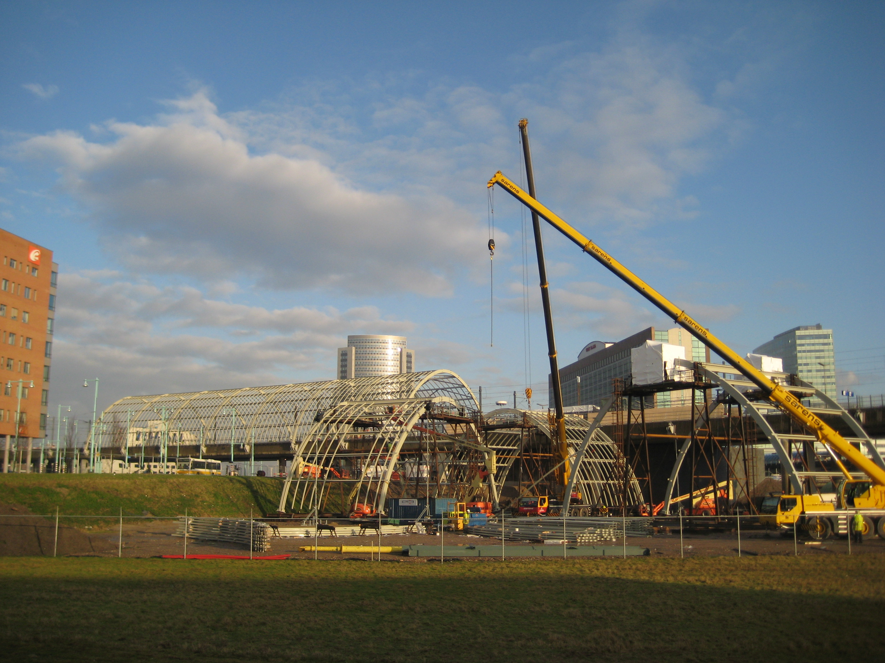 Construction of the Sloterdijk Hemboog station in the Netherlands